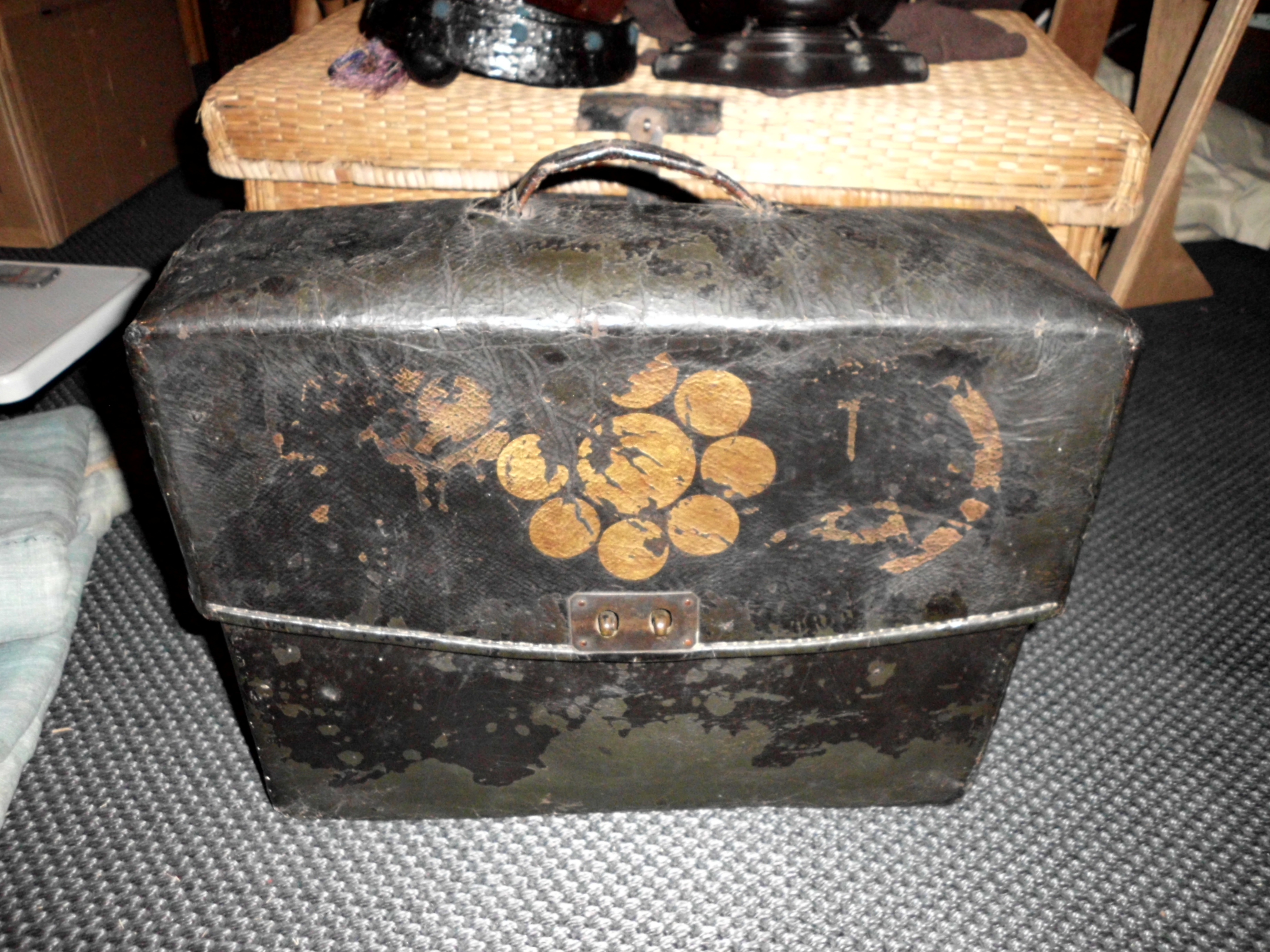 Antique Japanese (samurai) Edo period douran, a leather box used for holding ammunition for a tanegashima fire arm.